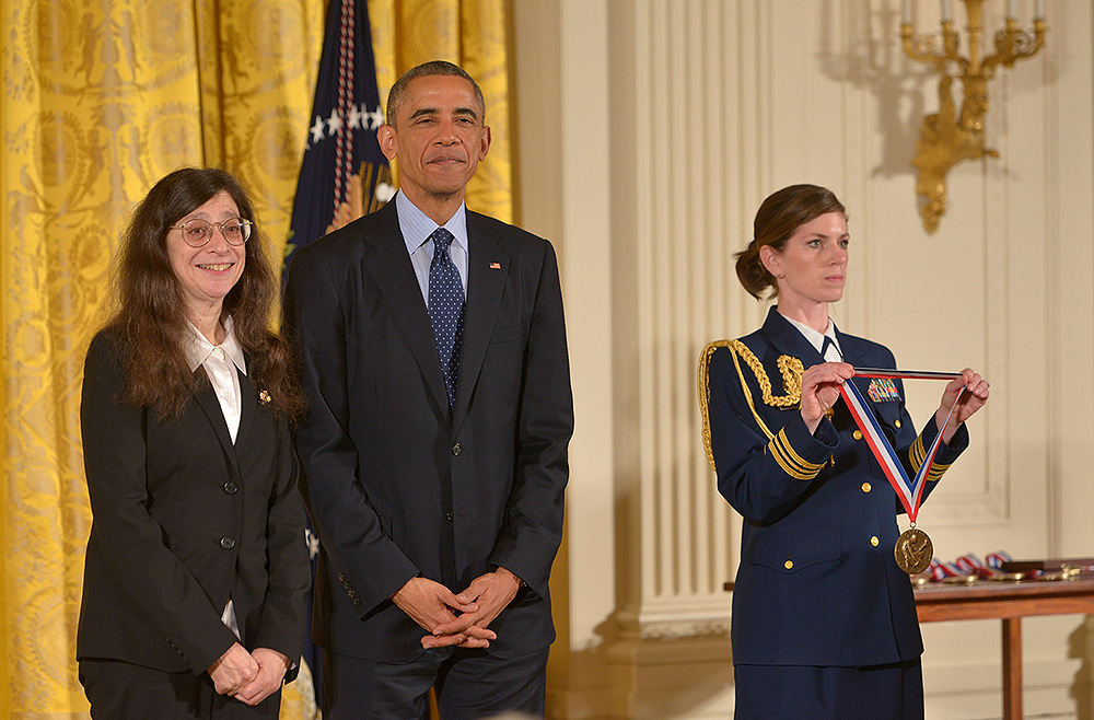 President Obama presented the 2012 National Medal of Science and National Medal of Technology and Innovation laureates with their medals at a White House ceremony on Nov. 20, 2014. The medals are the nation’s highest honors for achievement and leadership in advancing the fields of science and technology. May Berenbaum of the University of Illinois at Urbana-Champaign received the National Medal of Science for “pioneering studies on chemical co-evolution and the genetic basis of insect-plant interactions and for enthusiastic commitment to public engagement that inspires others about the wonders of science.” Find out more about the recipients of the National Medal of Science and National Medal of Technology and Innovation in this NSF press release. Credit: Sandy Schaeffer for NSF